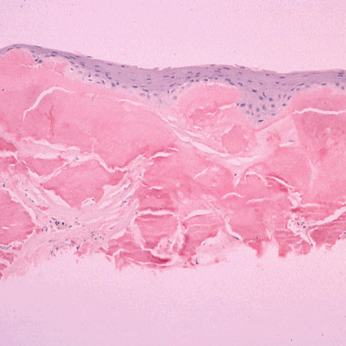 Gelatinous drop-like corneal dystrophy. Light microscopy view of subepithelial deposit of amyloid. Congo red stain. Klintworth Orphanet Journal of Rare Diseases 2009 4:7